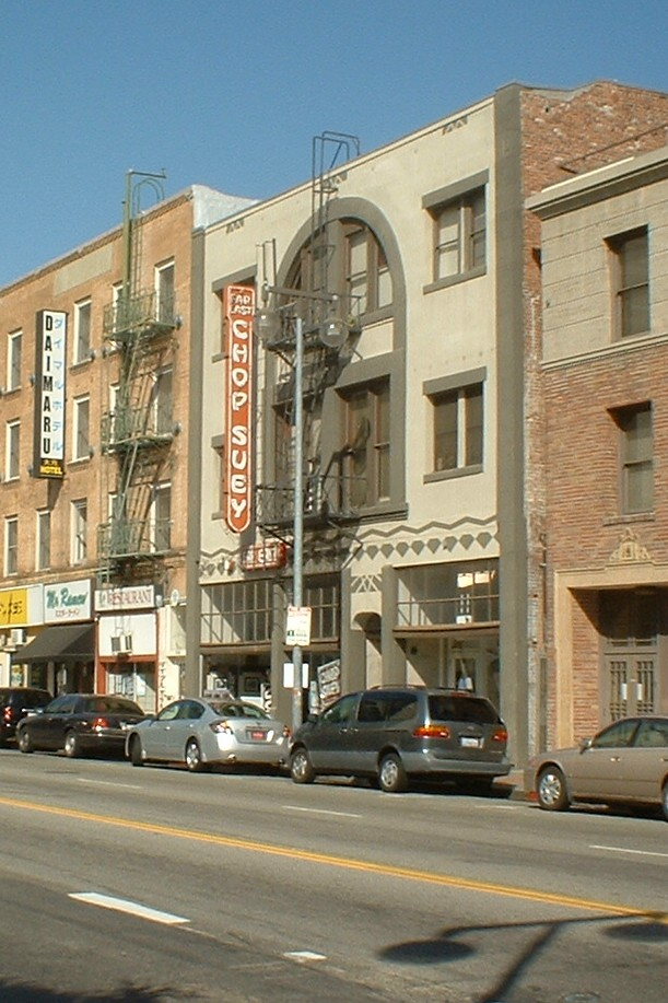 Photo of the historic Far East Chop Suey restaurant in Little Tokyo in LA. For Chop Suey article. Photographer: David Roberts (myself) Taken: Nov. 12, 2007